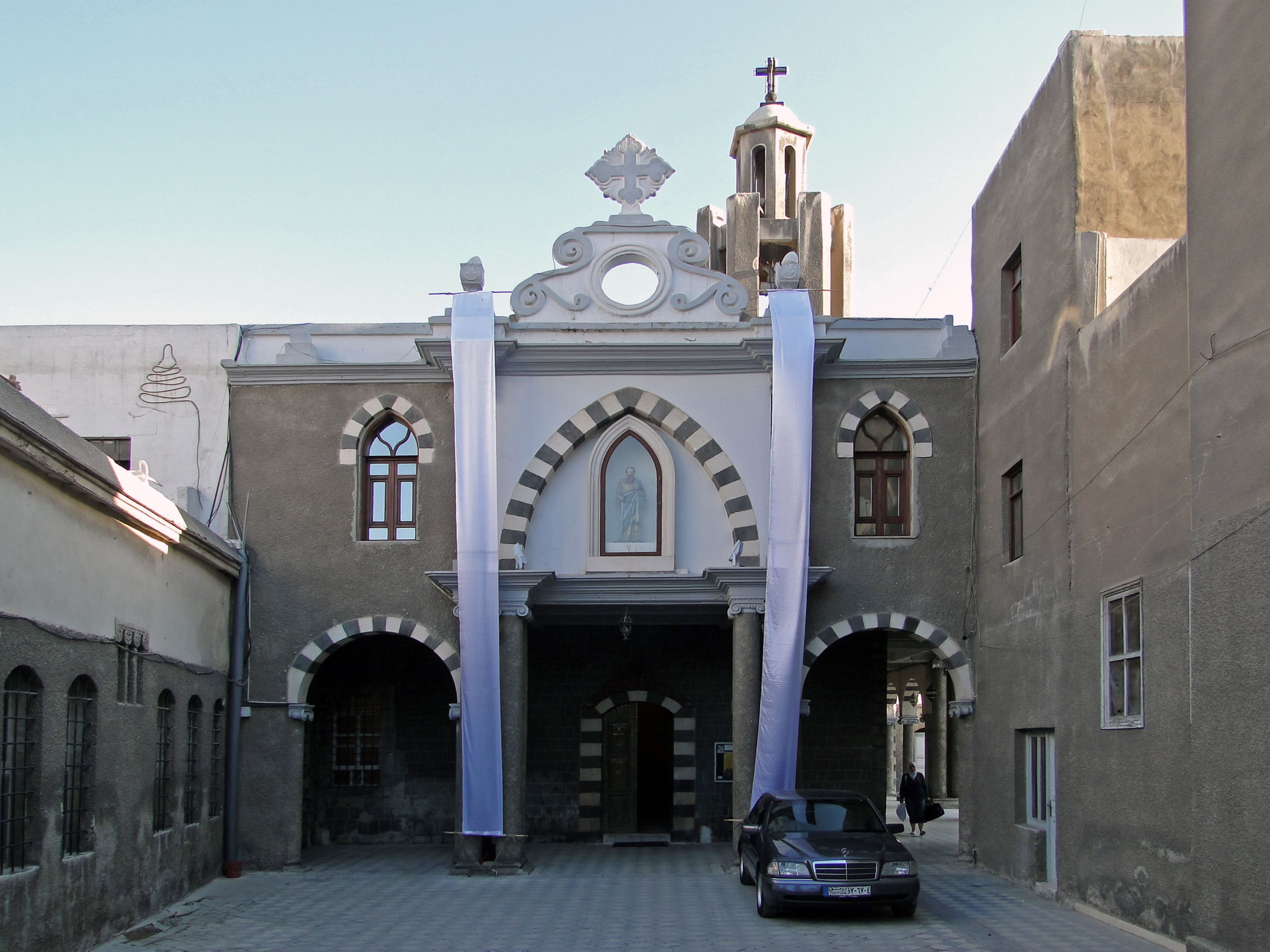 Syrian Catholic Cathedral, Damascus